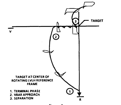 The Shuttle flies to the v-bar axis several hundred feet in front of the target. There the upward velocity is nulled to zero, and the vehicle begins "closing" toward the target by decreasing its velocity relative to the target's velocity so that the two w i l l eventually rendezvous.